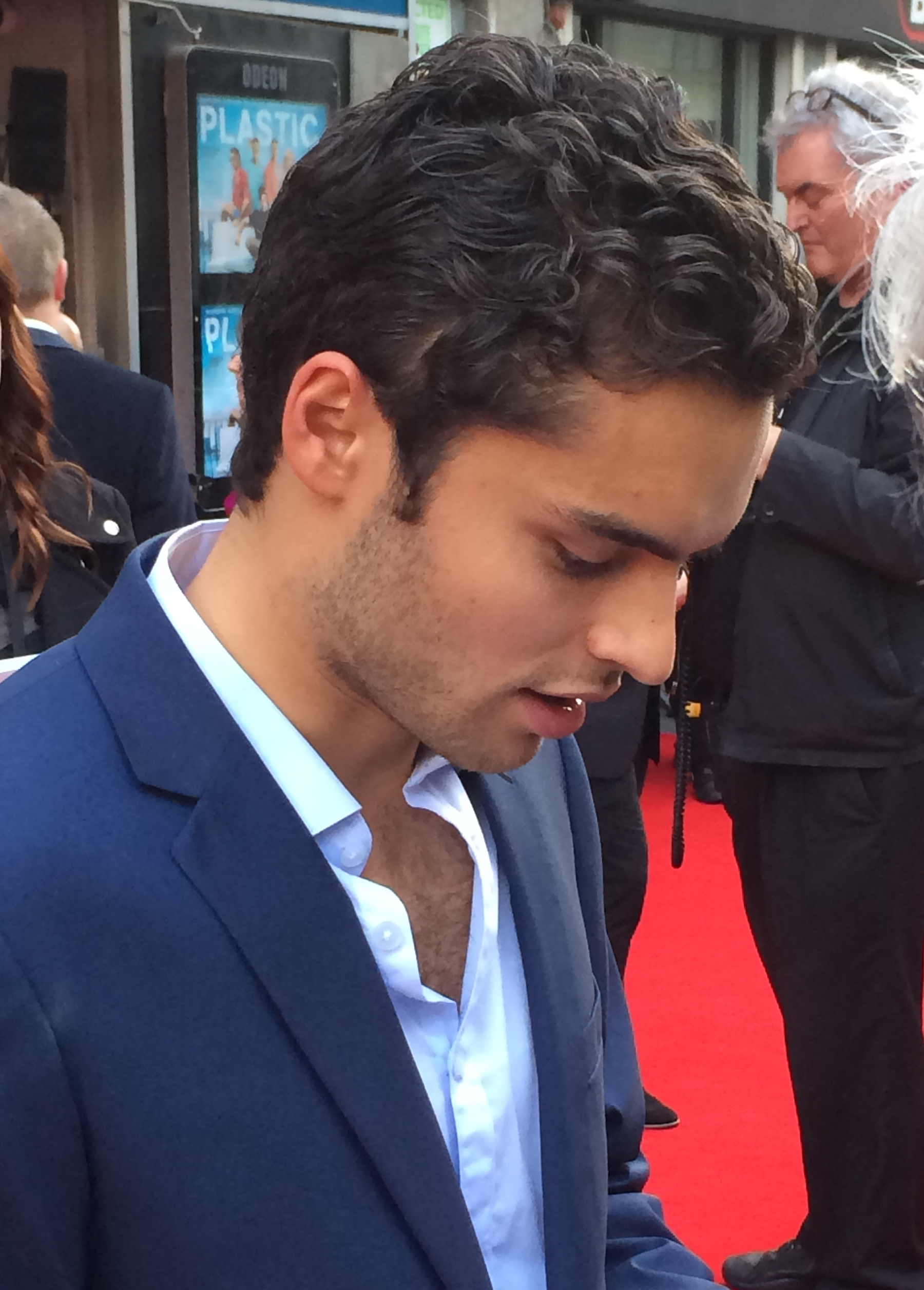 Sebastian de Souza attending the premiere of Plastic at the Odeon Leicester Square, London.